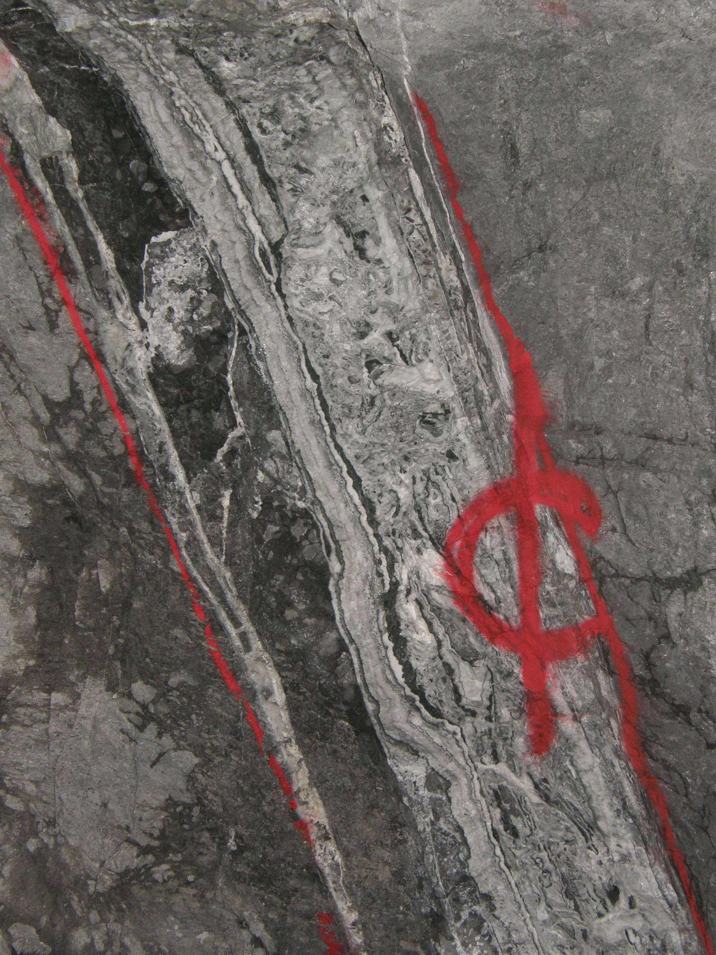 Gold-Silver epithermal vein in basalt. Exposed in an underground gold mine, northern Nevada, USA. Image width: ca. 2m.